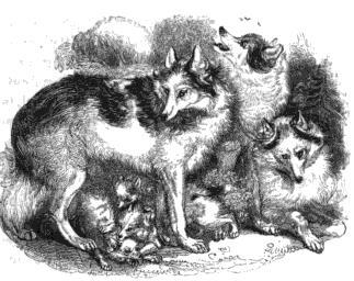 Illustration of Hare Indian dogs from The Gardens and Menagerie of the Zoological Society